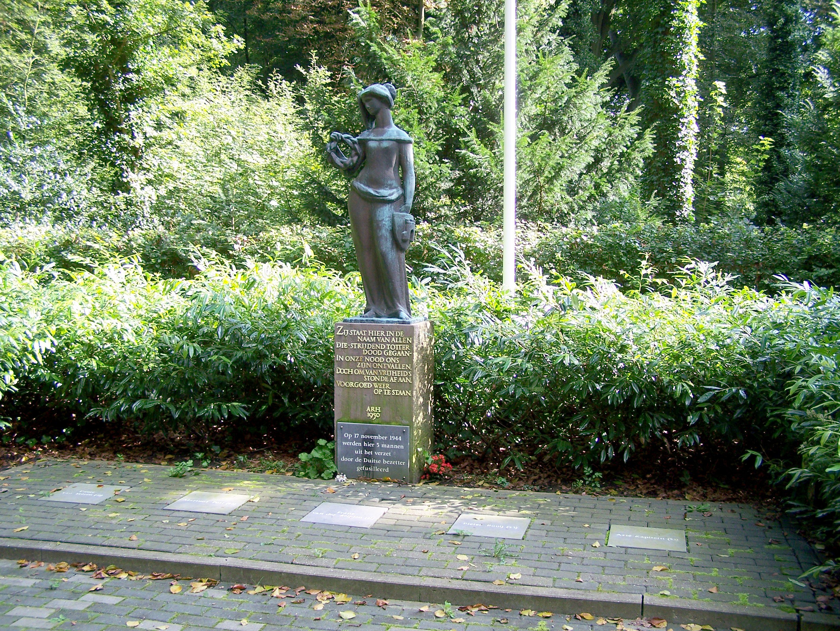 War monument "Stedemaagd" by Jeanne Kouwenaar-Bijlo. Erected in 1950 at the Harddraverslaan (Alkmaarder Hout) in Alkmaar. There's a poem of Adriaan Roland Holst on the pedestal.